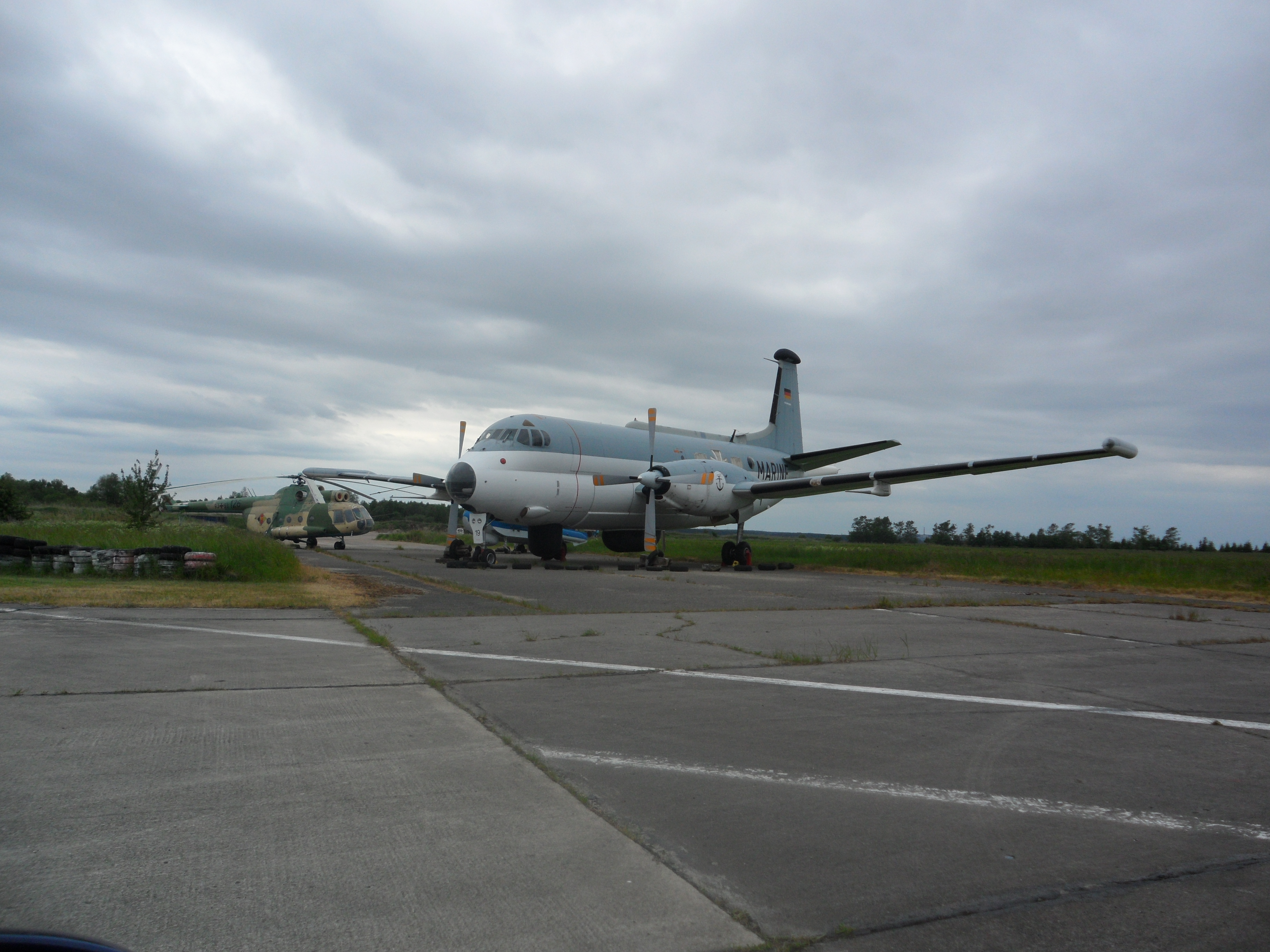 Breguet Atlantic in former German Navy service, now on the airfield in Peenemünde